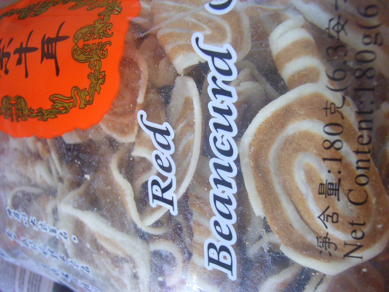 牛耳酥